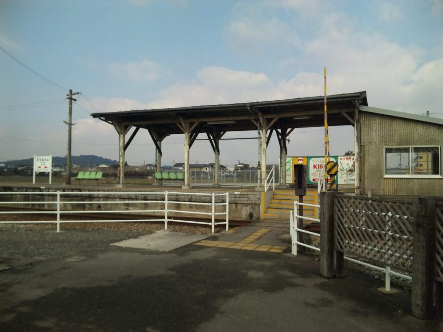 Main Plathome of Tachiarai-Sta